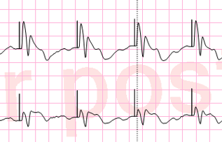 This patient had true mechanical capture